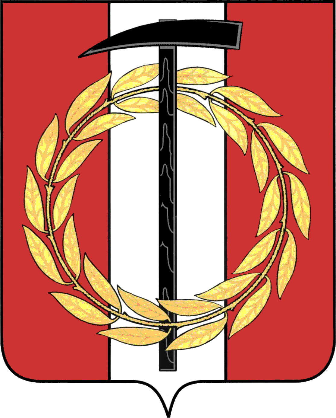 Kopeysk (Chelyabinsk oblast), coat of arms (2002)